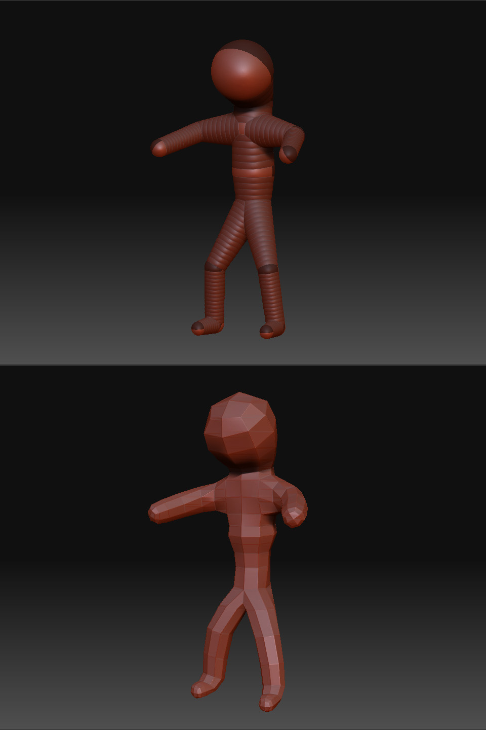 ZSpheres in ZBrush before and after skinning